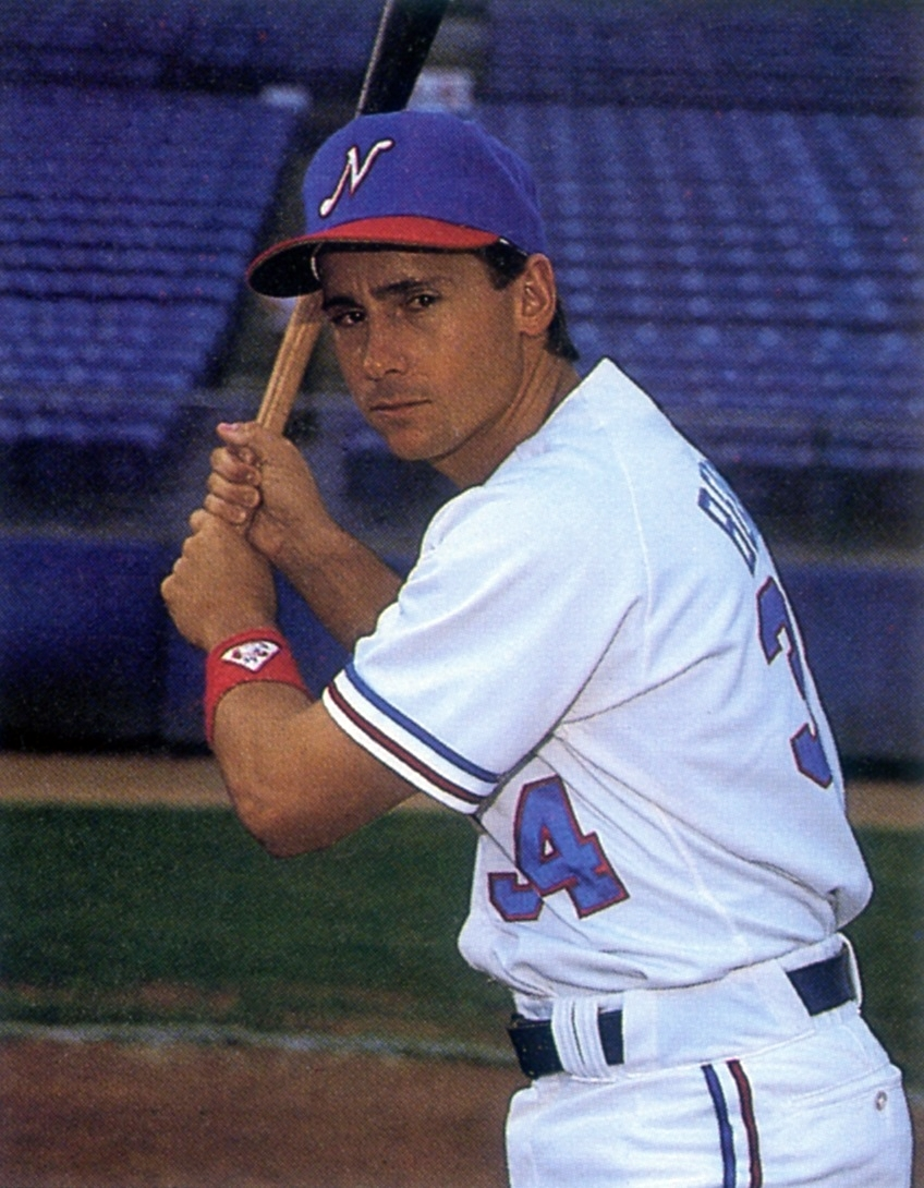 Catcher Mark Berry of the 1987 Nashville Sounds Minor League Baseball team of the American Association